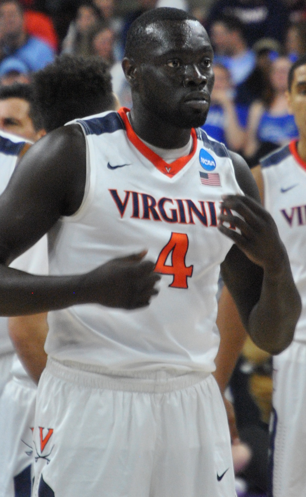 Marial Shayok, Devon Hall and Malcolm Brogdon on the floor for the Cavaliers during the Second Round of the NCAA Tournament in Raleigh